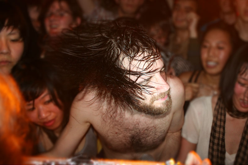 Musician Gregg Gillis, alias Girl Talk